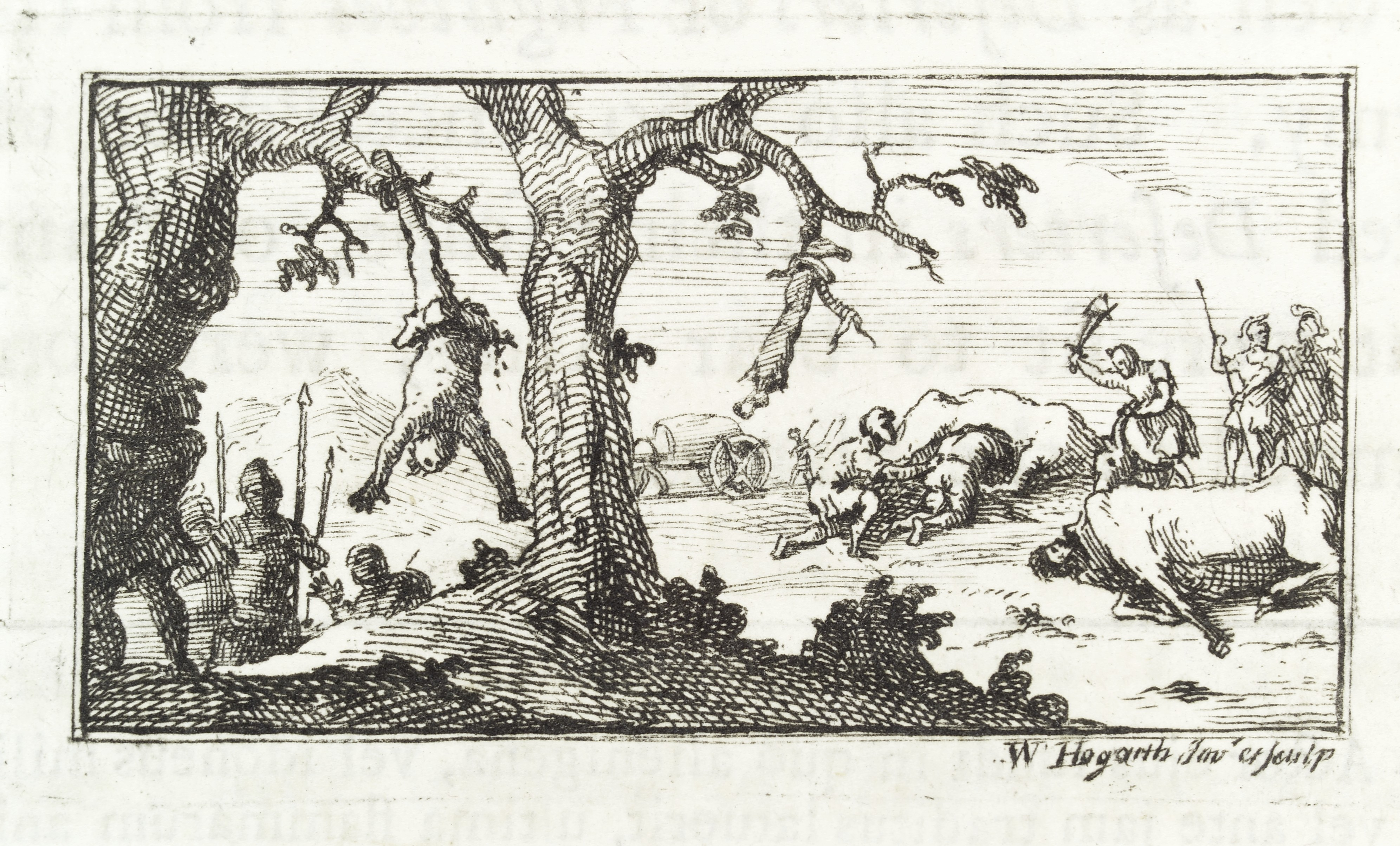 Example of a Roman military punishment for Adultery, where the feet of the soldier were tied to two branches of trees bent down, which being suddenly let free, tore the offender apart. Rare Books Keywords: Military History; William Hogarth; Army